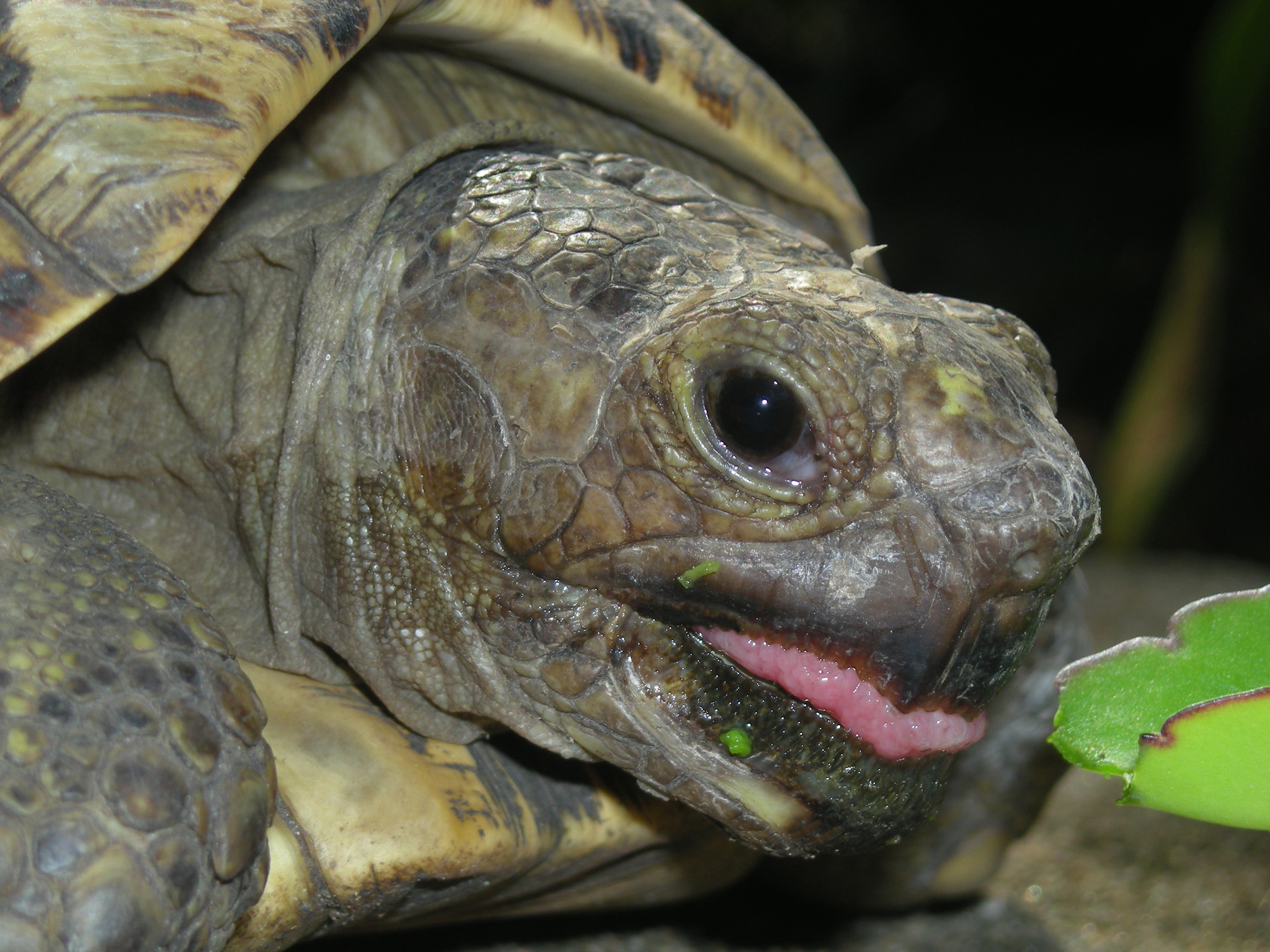 Leopard Tortoise just about to munch! Kiswahili: Kobe anayeenda kula